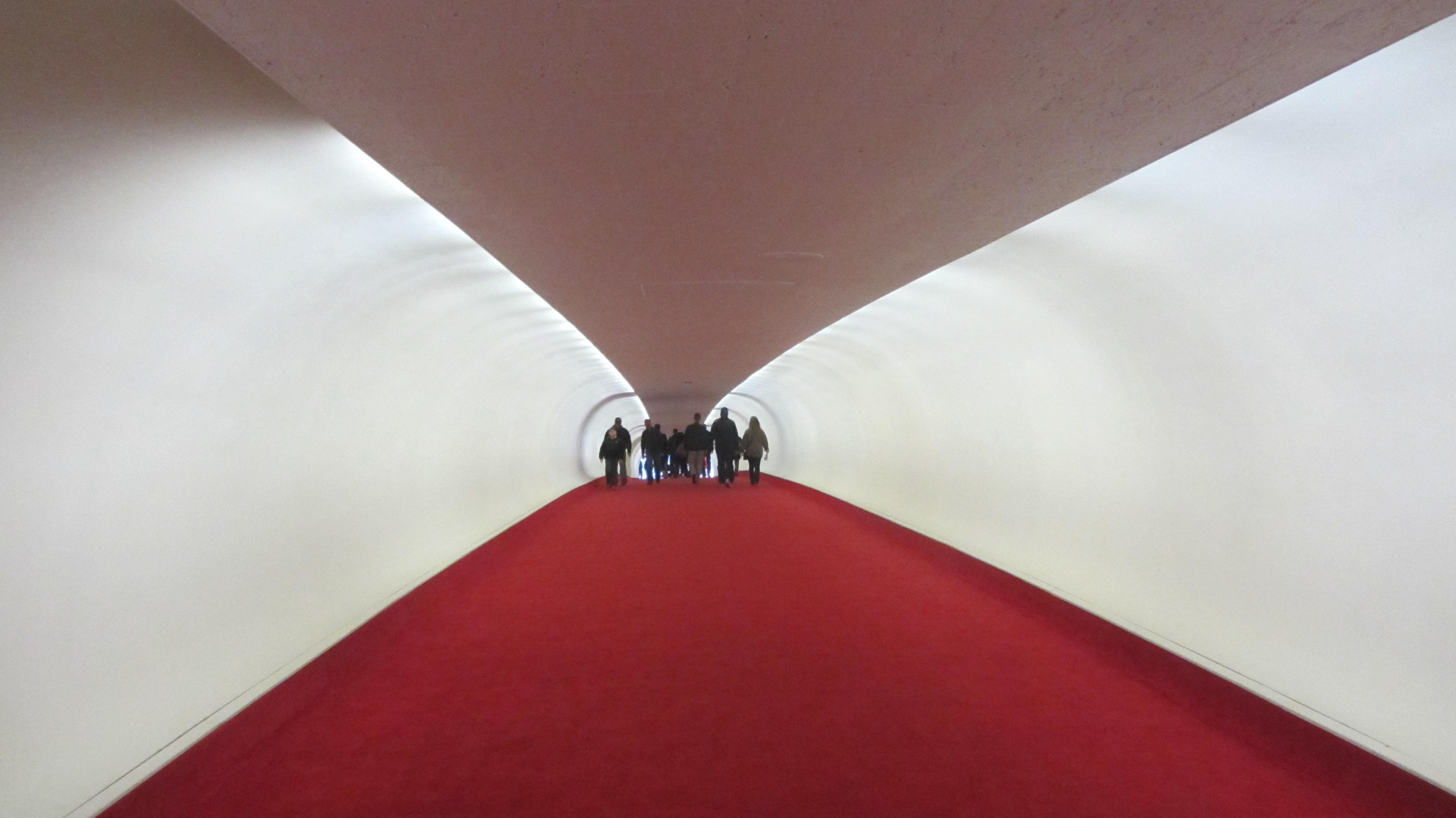 The Red carpet hallway to flight Site: TWA Flight Center